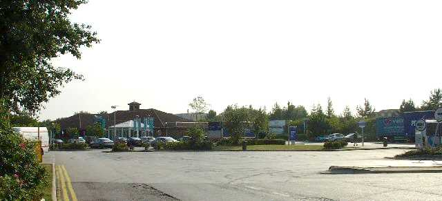 Pease Pottage Services. At the (current) end of the M23, Junction 11. Operated by Moto.